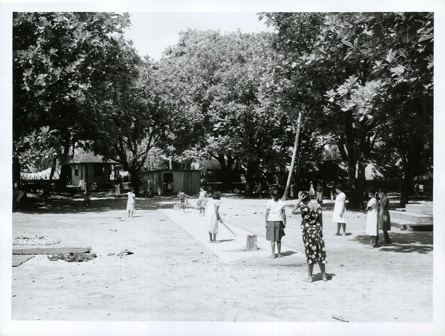 The only cleared area on Fakaofo atoll. Women play cricket after their Wednesday women's meeting. Photographer: Mr. Nicholson. Date: November 1966 Archival reference: AAQT 6539 W3537 Box 69 /A81212 The National Publicity Studio was established in 1945, but its beginnings can be traced back to the establishment in 1924 of a Publicity Office - part of the Department of Internal Affairs. The emphasis of this Publicity Office was on films, photographs and booklets. The purpose of the National Publicity Studio was to provide advice to government departments and state agencies on the provision of photographic, art, and display services and in particular to assist in the production of publicity material aimed at conveying a favourable image of New Zealand. For enquiries about this record, email us at Material from Archives New Zealand